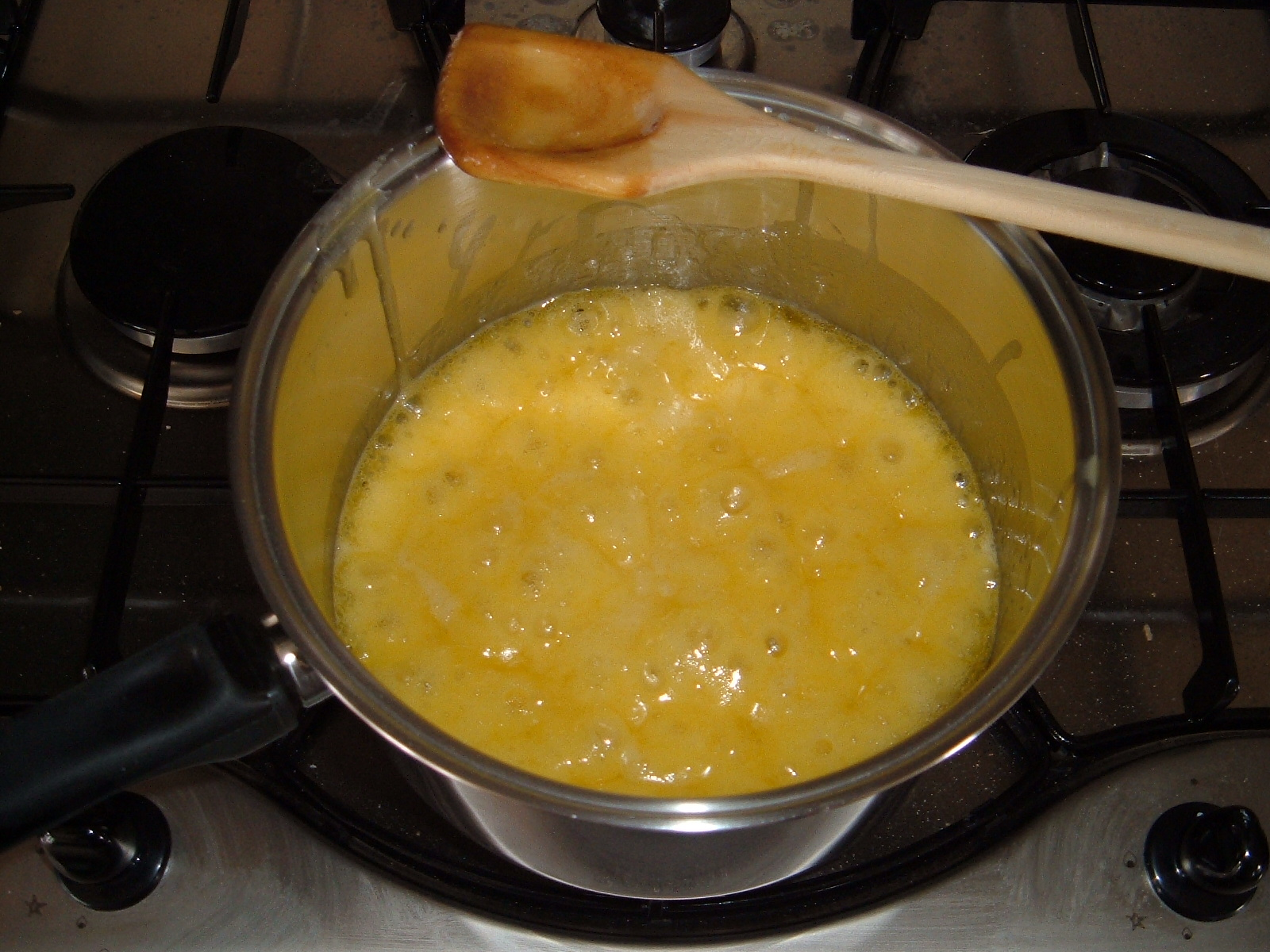 Making Rice Bubble cake. How the mixture looks at the start of boiling.